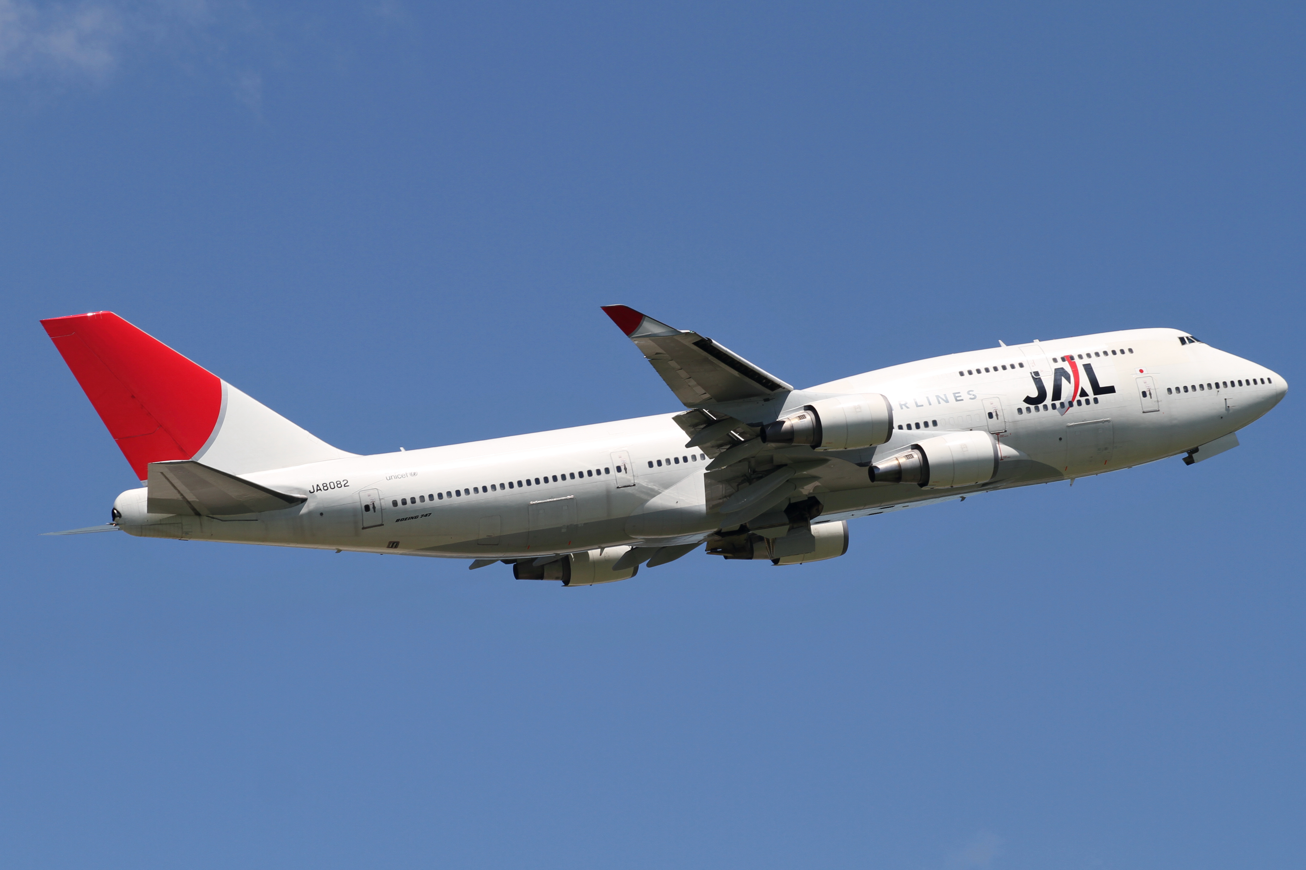 Narita International Airport, Boeing 747-446, c/n:25212, Japan Airlines